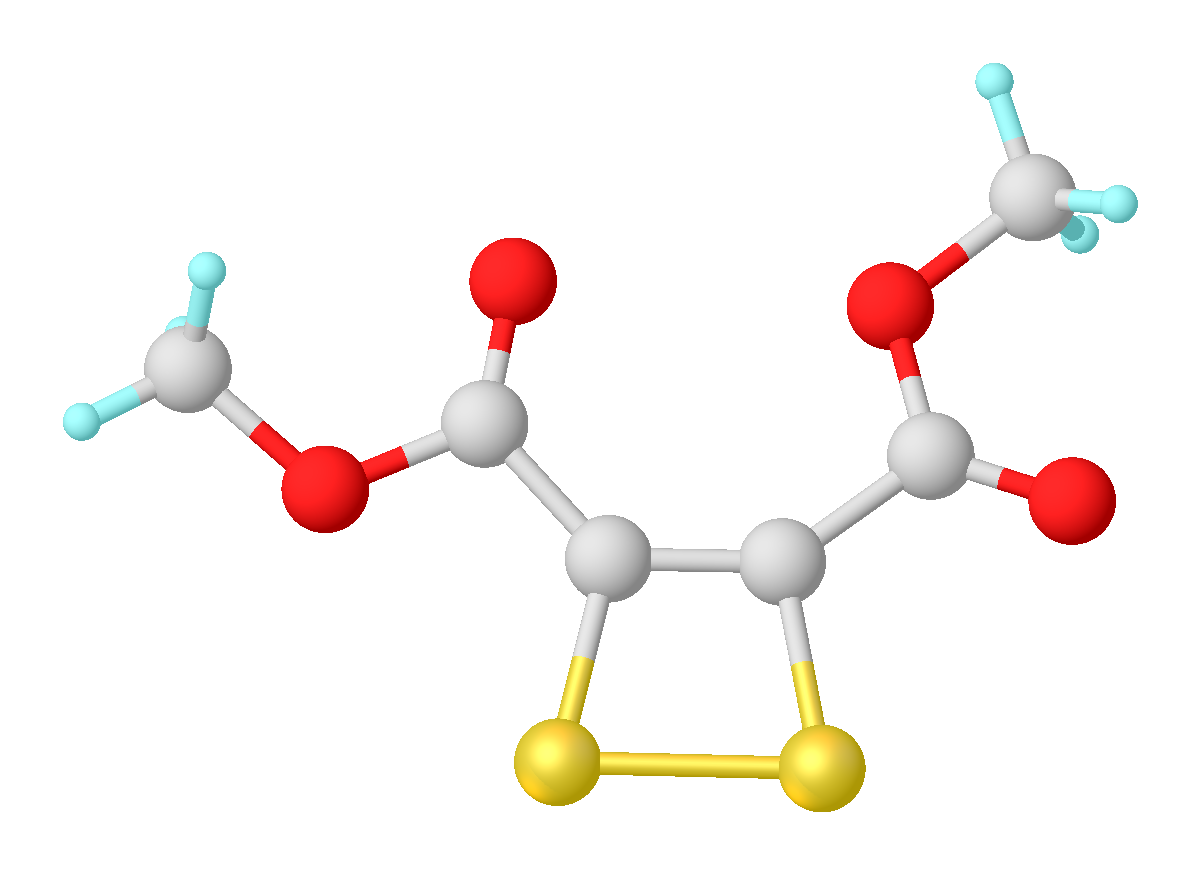 Structure of the dithiete S2C2(CO2Me)2.